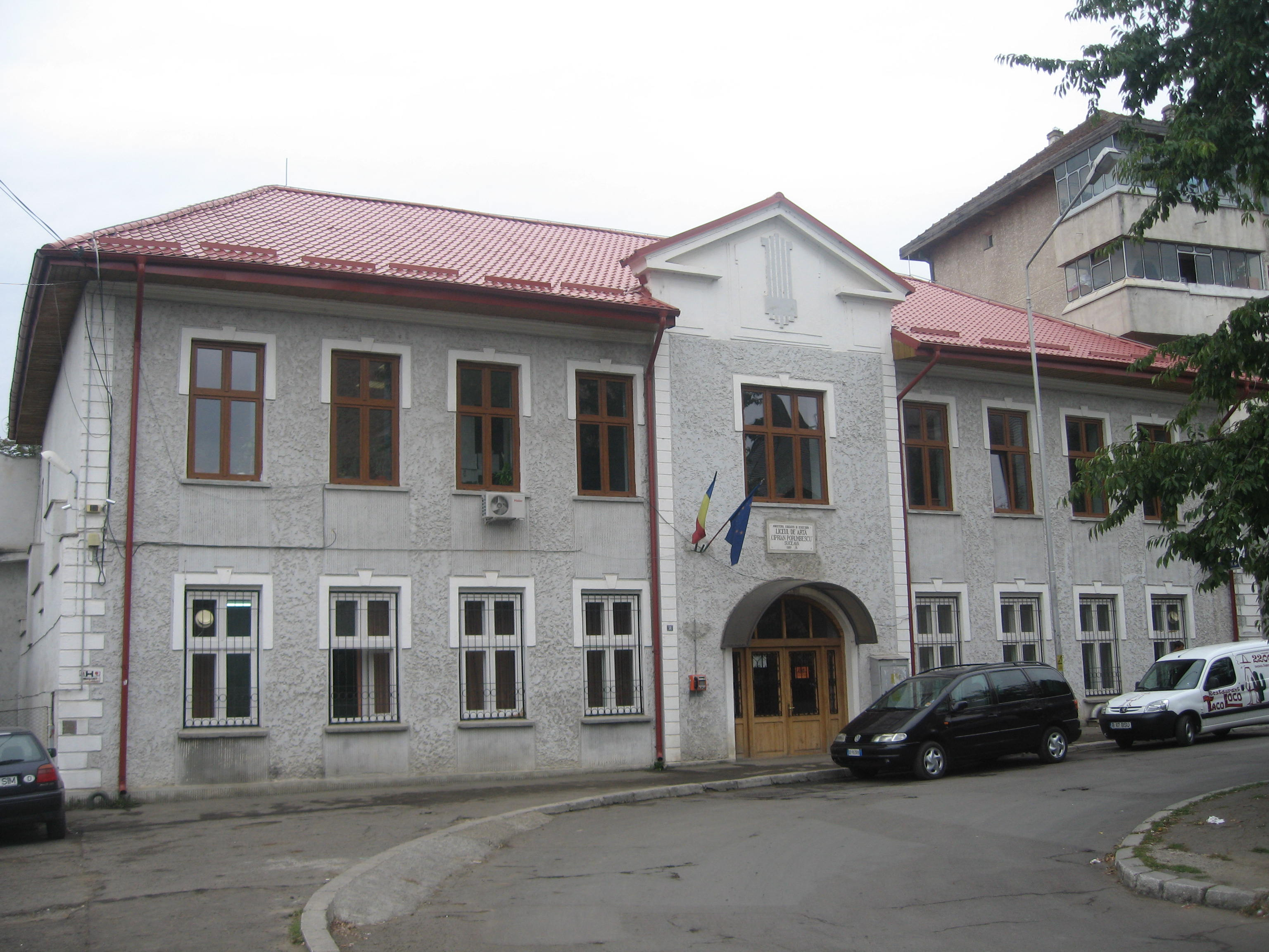 Ciprian Porumbescu Art College in Suceava.